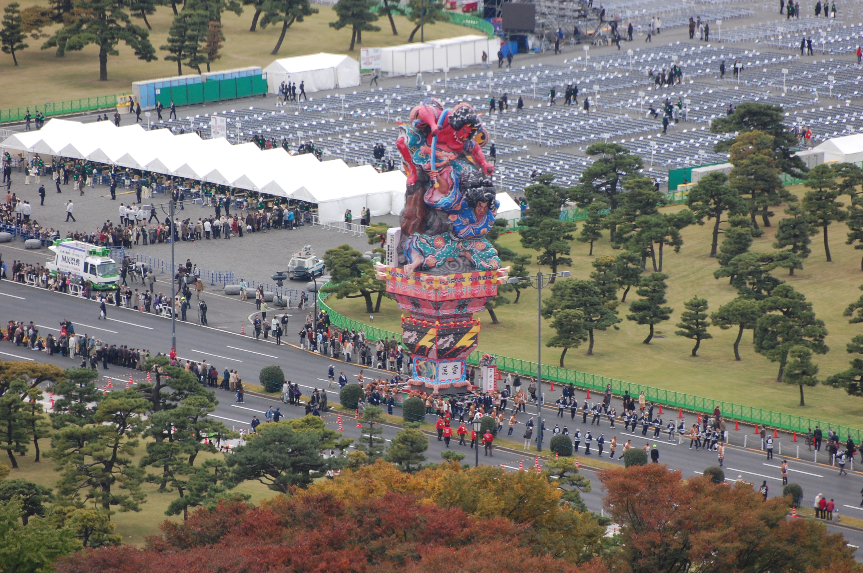 Photos of parade in front of Tokyo Imperial Palace during celebration of the 20th anniversary of Emperor Akihito's ascension to the throne.